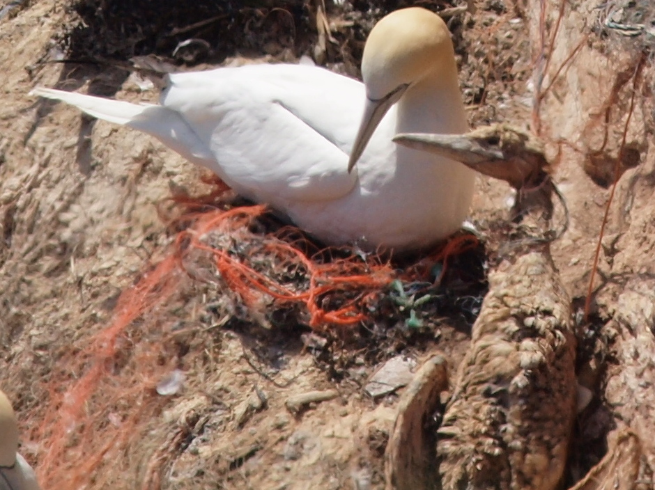 Northern gannet (Morus bassanus) on Helgoland, trapped in their own nests, build only of old nets and other plastic waste.